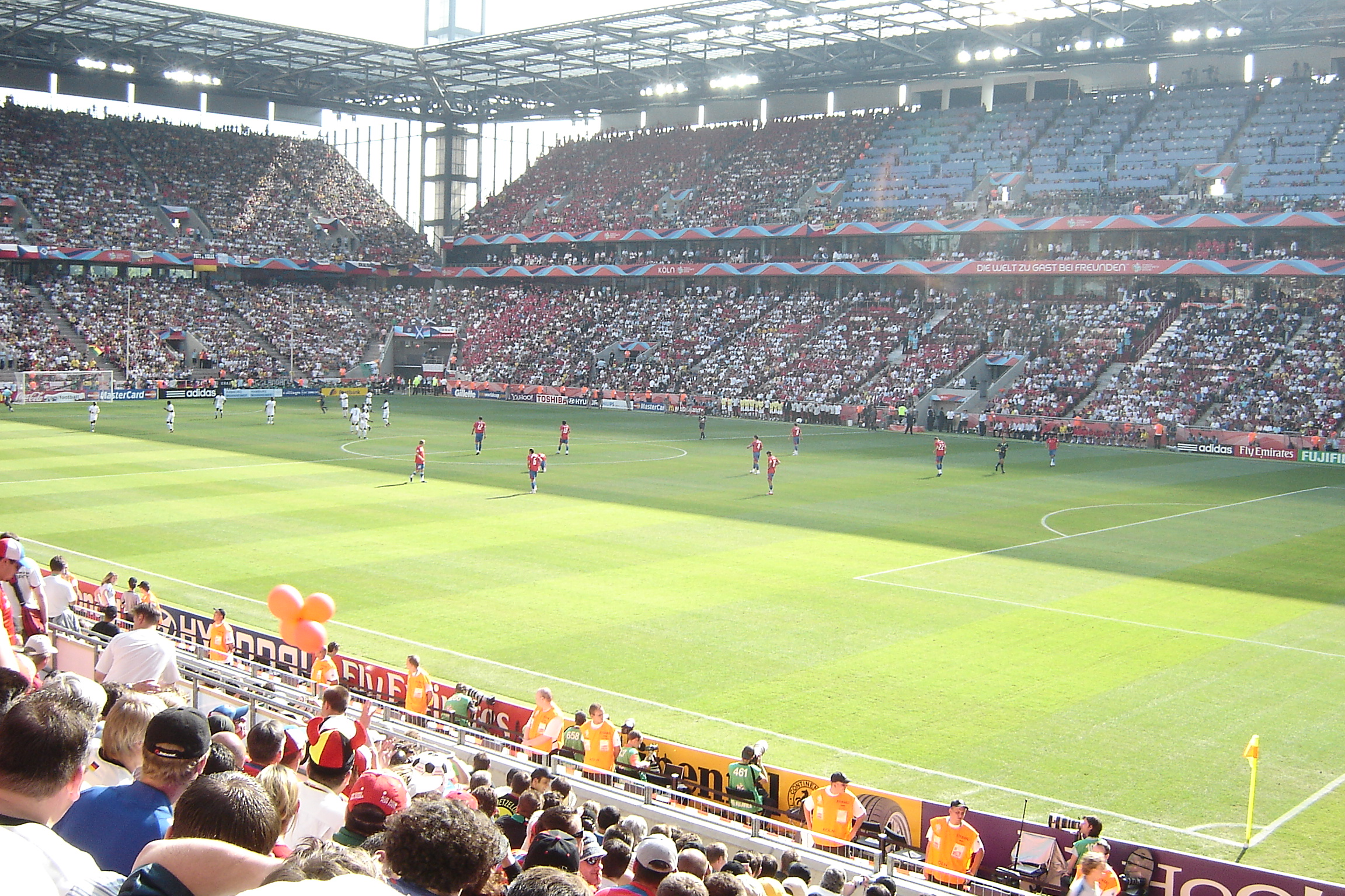 Czech Republic versus Ghana at the 2006 World Cup in Köln